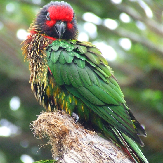 Yellow-streaked Lory (Chalcopsitta sintillata). Photo taken at Fuengirola Zoo in Spain.